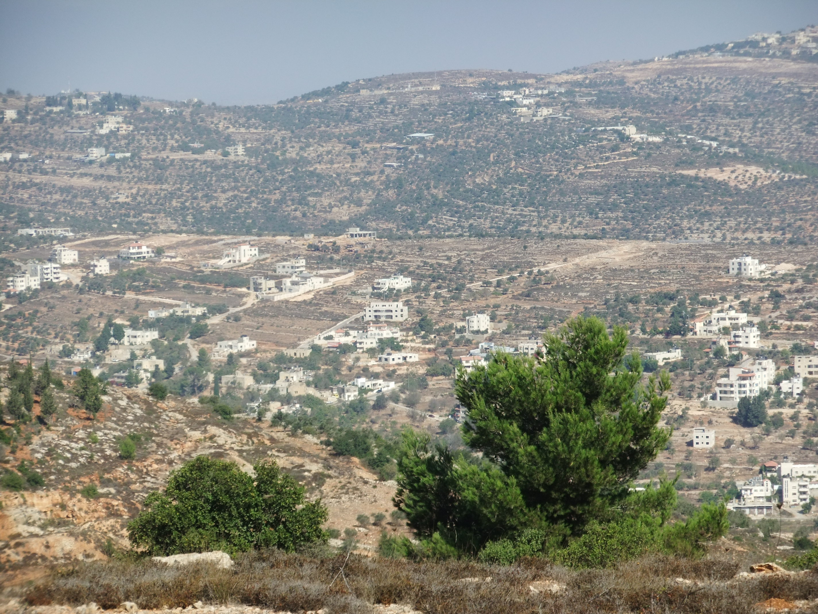 Jifna from the Artis